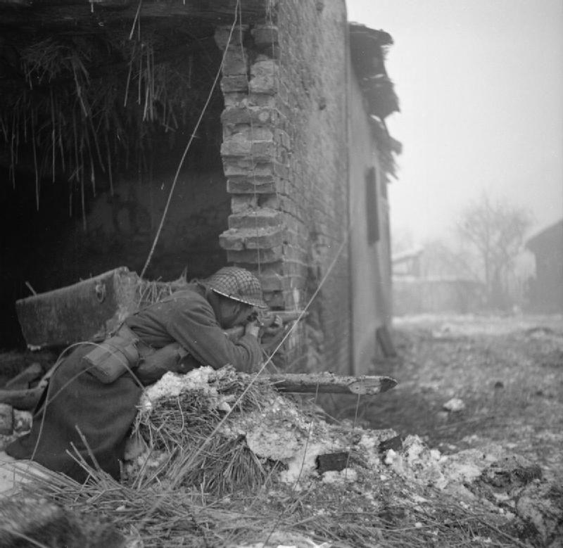 The Campaign in North West Europe 1944-45 A soldier 'firing on German positions' from a ruined house in the village of Bakenhoven, Holland, during 12th Corp's offensive in the Dieteren area, north of Sittard, 16 January 1945.